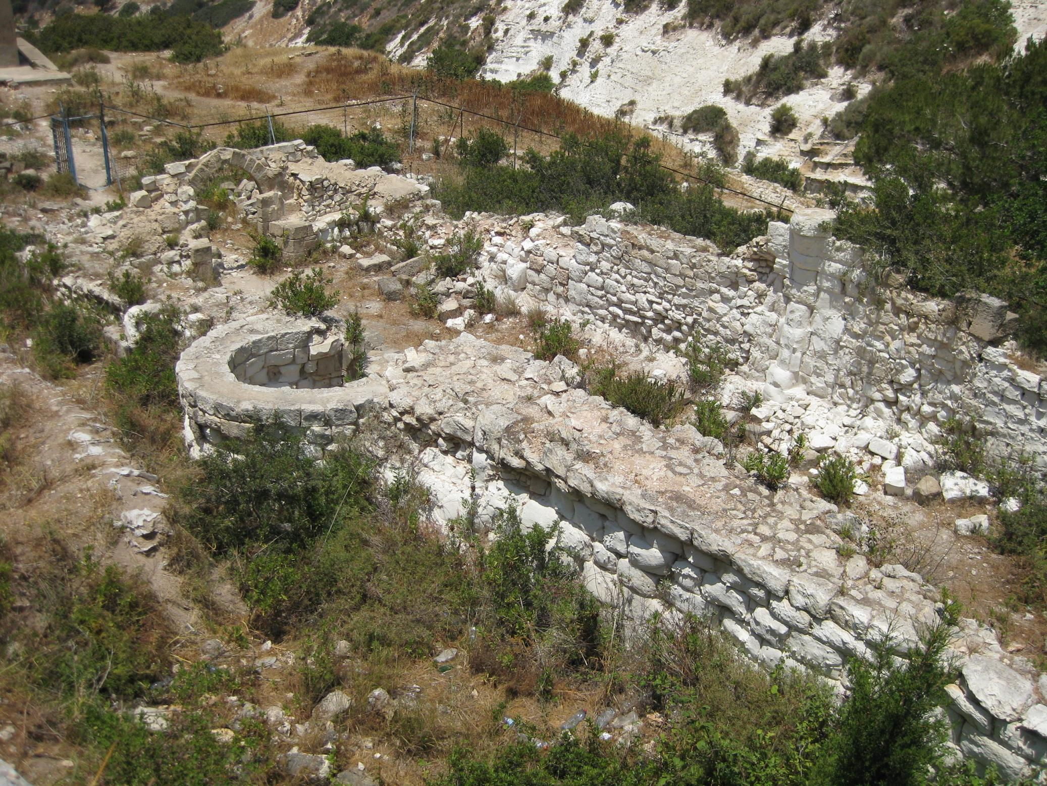 Ancient church in Nahal Siah, Haifa, Israel.